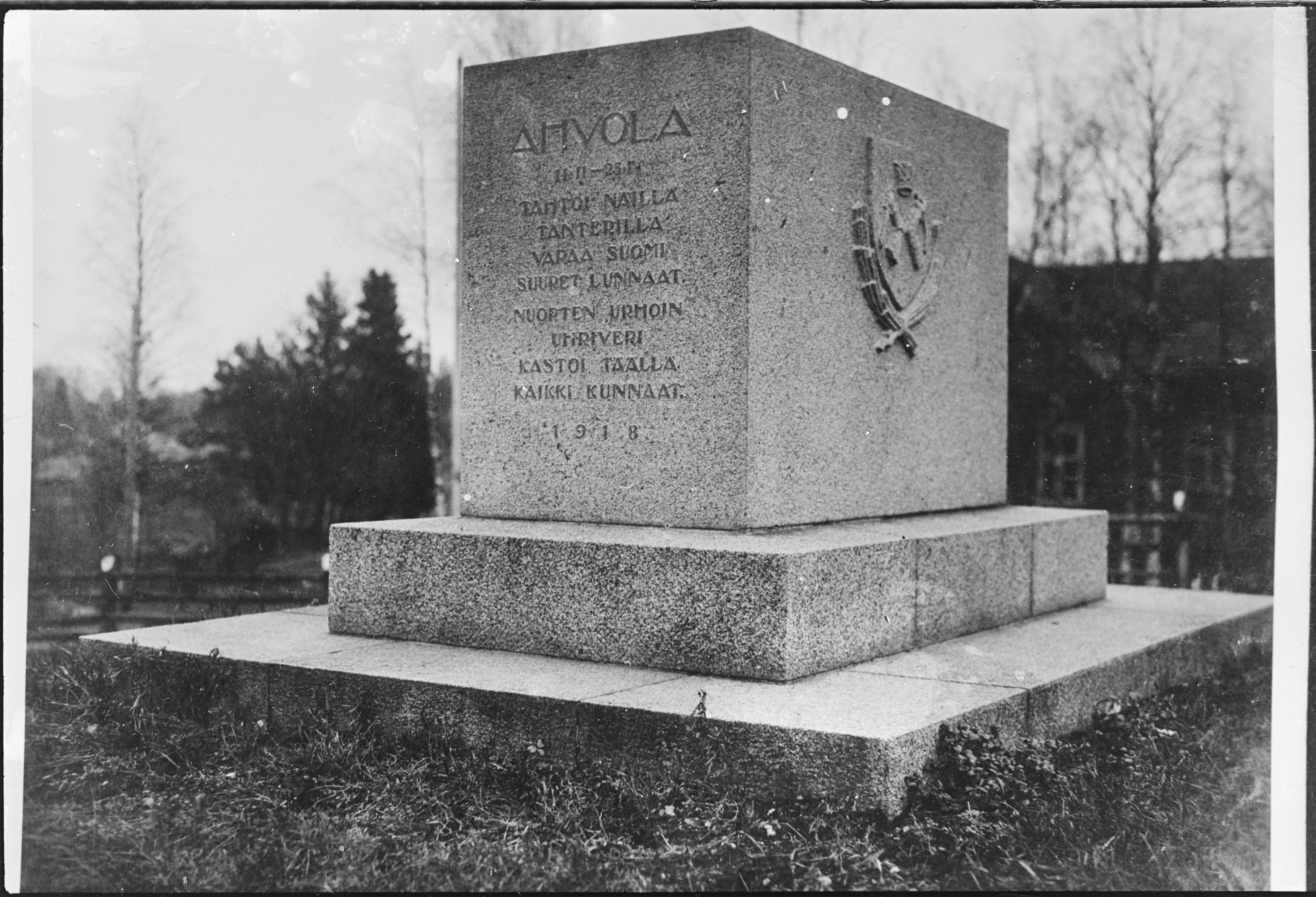 Memorial of the 1918 Finnish Civil War Battle of Ahvola in Jääski municipality (present day Lesogorsky locality, Vyborgsky District of Leningrad Oblast, Russia).